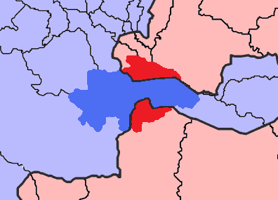 The map shows the two municipalities of Trnovo (FBiH) - blue and Trnovo (RS) - red, in Bosnia and Herzegovina. The Inter-Entity Boundary Line is grey.